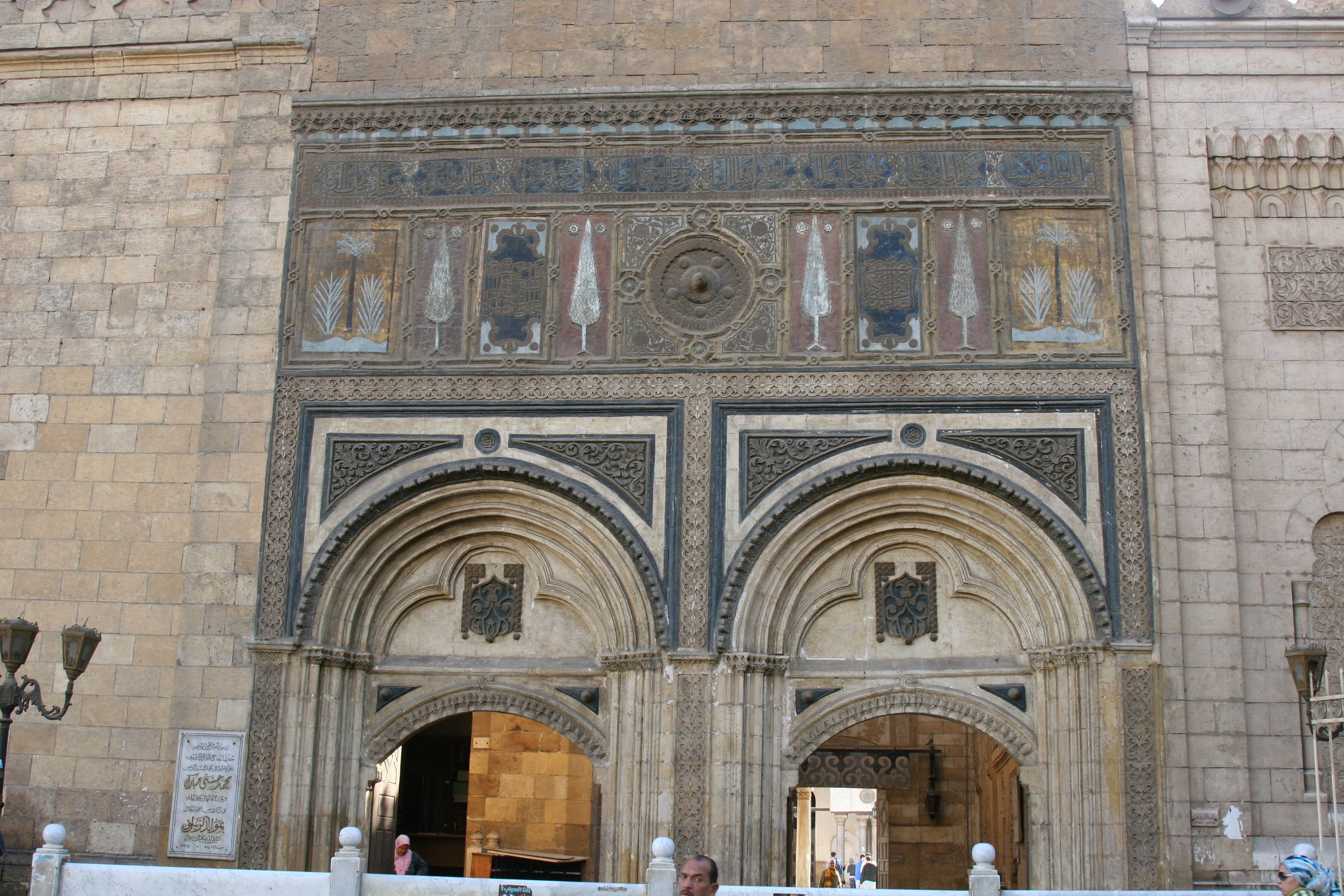 Bab al-Muzaynin (Gate of the Barbers) Main entrance to Al-Azhar Mosque